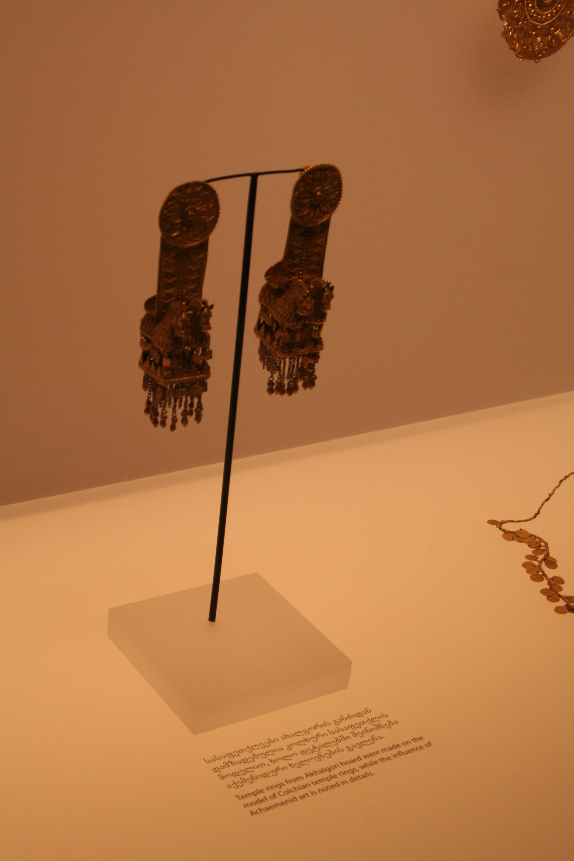 Simon Janashia Museum of Georgia